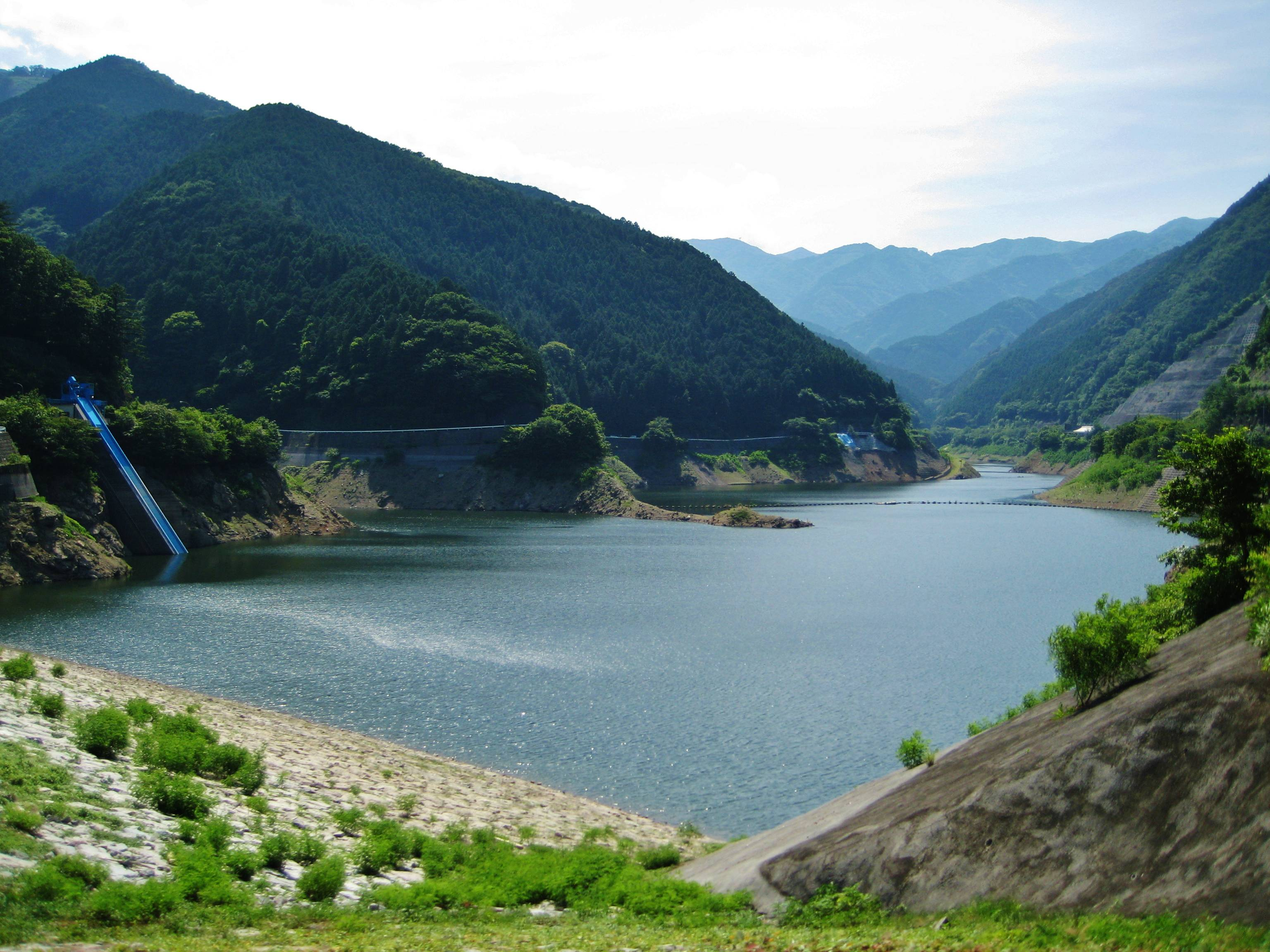 Arima Dam.